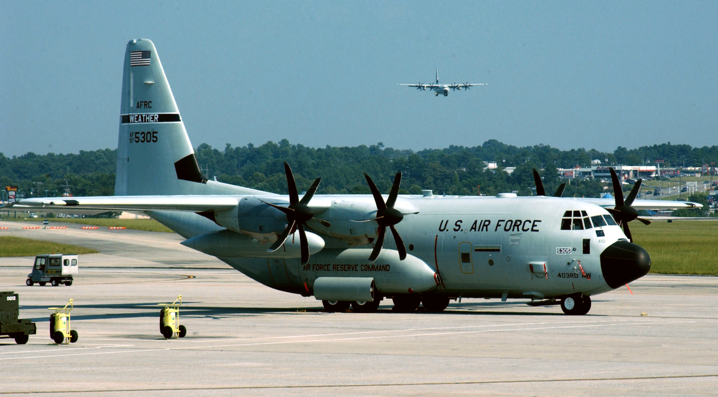 An Air Force Reserve Command WC-130 Hercules sits on the runway at Dobbins Air Reserve Base in Marietta, Georgia. The Hurricane Hunters from the 53rd Weather Reconnaissance Squadron evacuated their home at Keesler Air Force Base, Miss., before Hurricane Katrina slammed the Gulf Coast. Despite their own personal losses, the reservists continued to track tropical storms in the Caribbean.